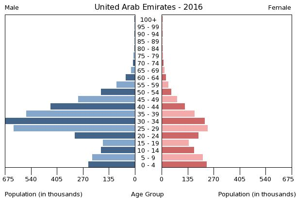 The population pyramid of the United Arab Emirates illustrates the age and sex structure of population and may provide insights about political and social stability, as well as economic development. The population is distributed along the horizontal axis, with males shown on the left and females on the right. The male and female populations are broken down into 5-year age groups represented as horizontal bars along the vertical axis, with the youngest age groups at the bottom and the oldest at the top. The shape of the population pyramid gradually evolves over time based on fertility, mortality, and international migration trends.